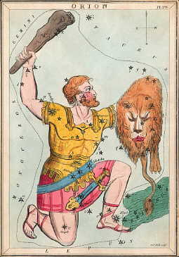 Orion as depicted in Urania’s Mirror, a set of constellation cards published in London c. 1825.